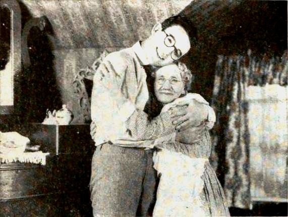 Still from the American film Grandma's Boy (1922) with Harold Lloyd and Anna Townsend, page 52 of the July 1922 Photoplay